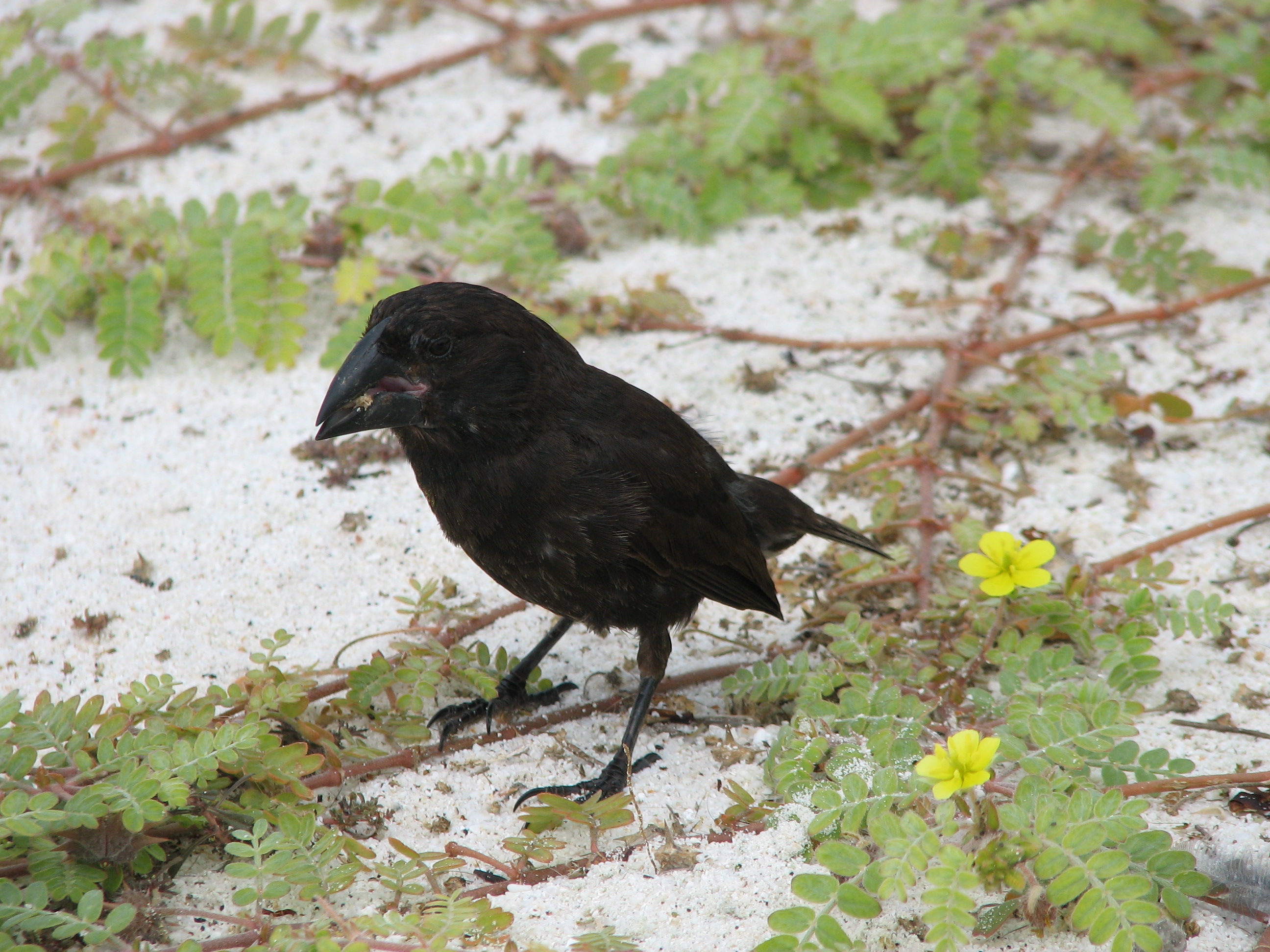 A male Large Cactus Finch on Española Island, Galápagos Islands, Ecuador.